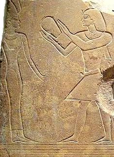 A relief of Satis being worshiped by pharaoh Sobekhotep III that was created in approximately 1760 B.C. in Ancient Egypt during the thirteenth dynasty; she wears the conical crown of Upper Egypt (southern Egypt) with gazelle or antelope horns - now in the collection of the Brooklyn Museum in the United States